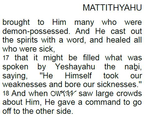 Excerpt from Matthew 8, from the Halleluyah Scriptures, a Sacred Name Bible that uses the Paleo-Hebrew script for some divine names.